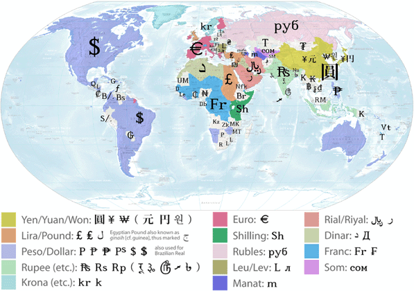 Currency symbols of the World, circa 2006